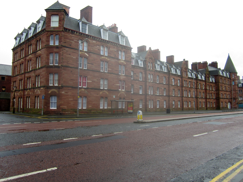 Devonshire Buildings north block, Barrow Island, Barrow-in-Furness, England